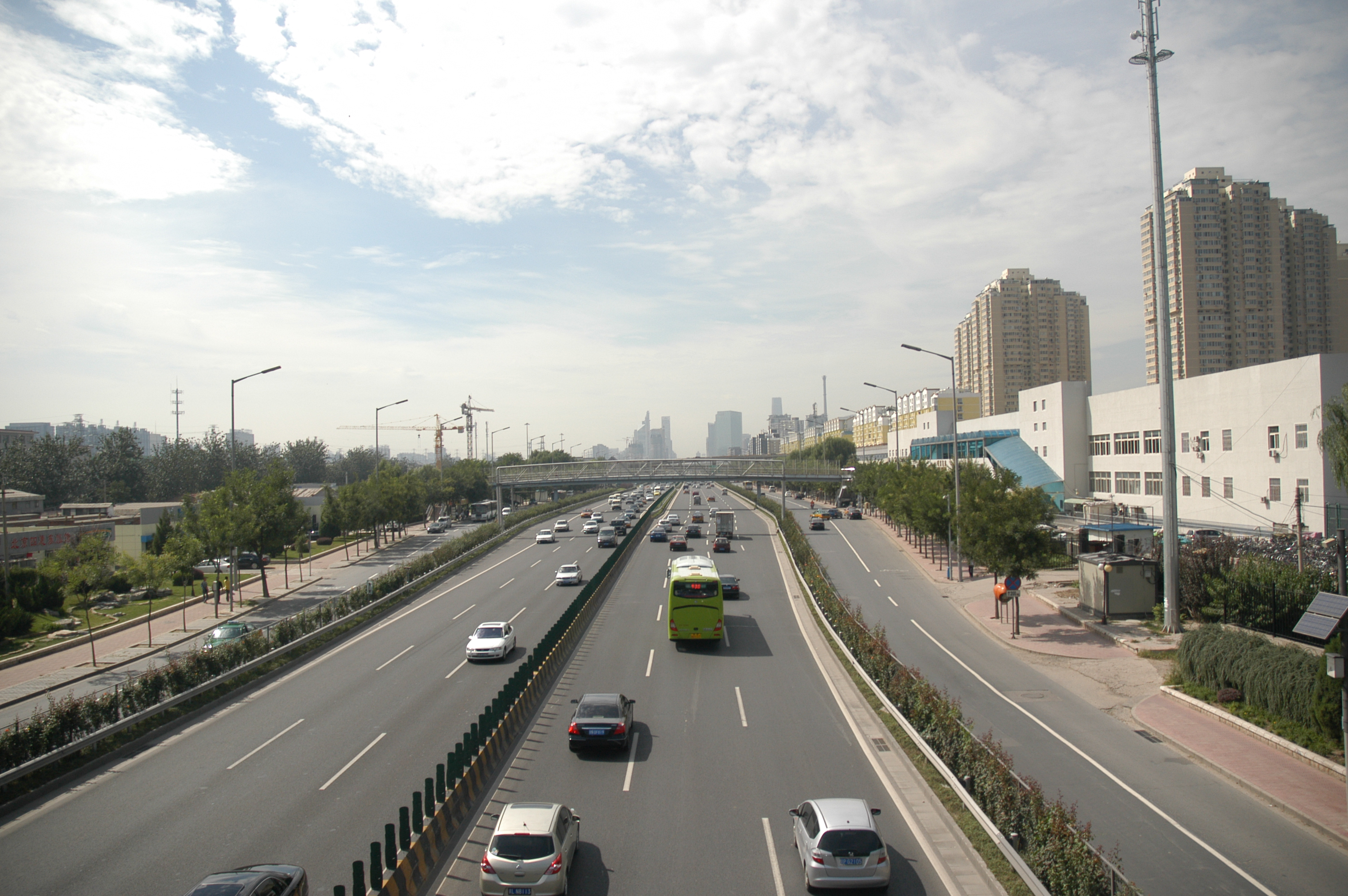 Jingtong Expressway heading west into Beijing's central business district.